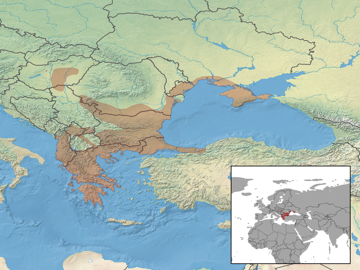 geographic distribution of Podarcis tauricus